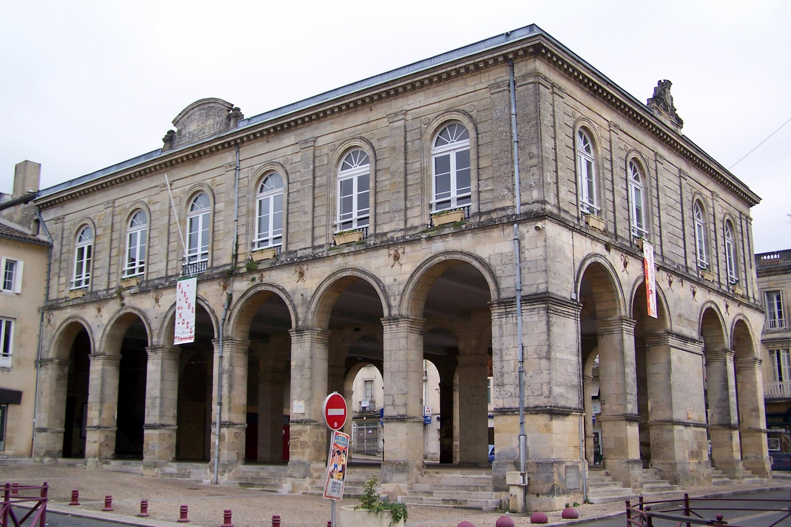 Town hall of Cadillac (Gironde, France)